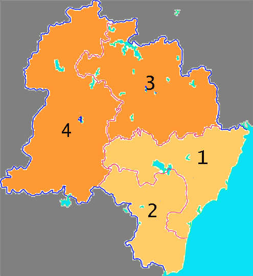 Municipalities of Rizhao city in Shandong province, China